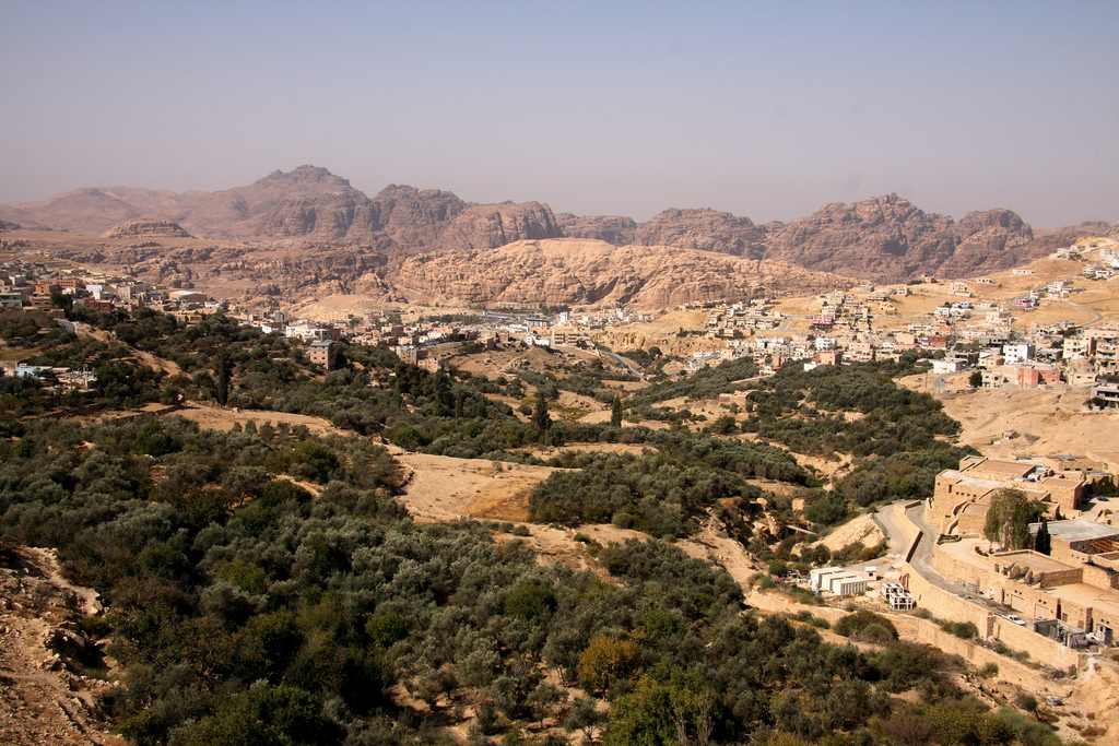 The valley containing Wadi Musa and Petra